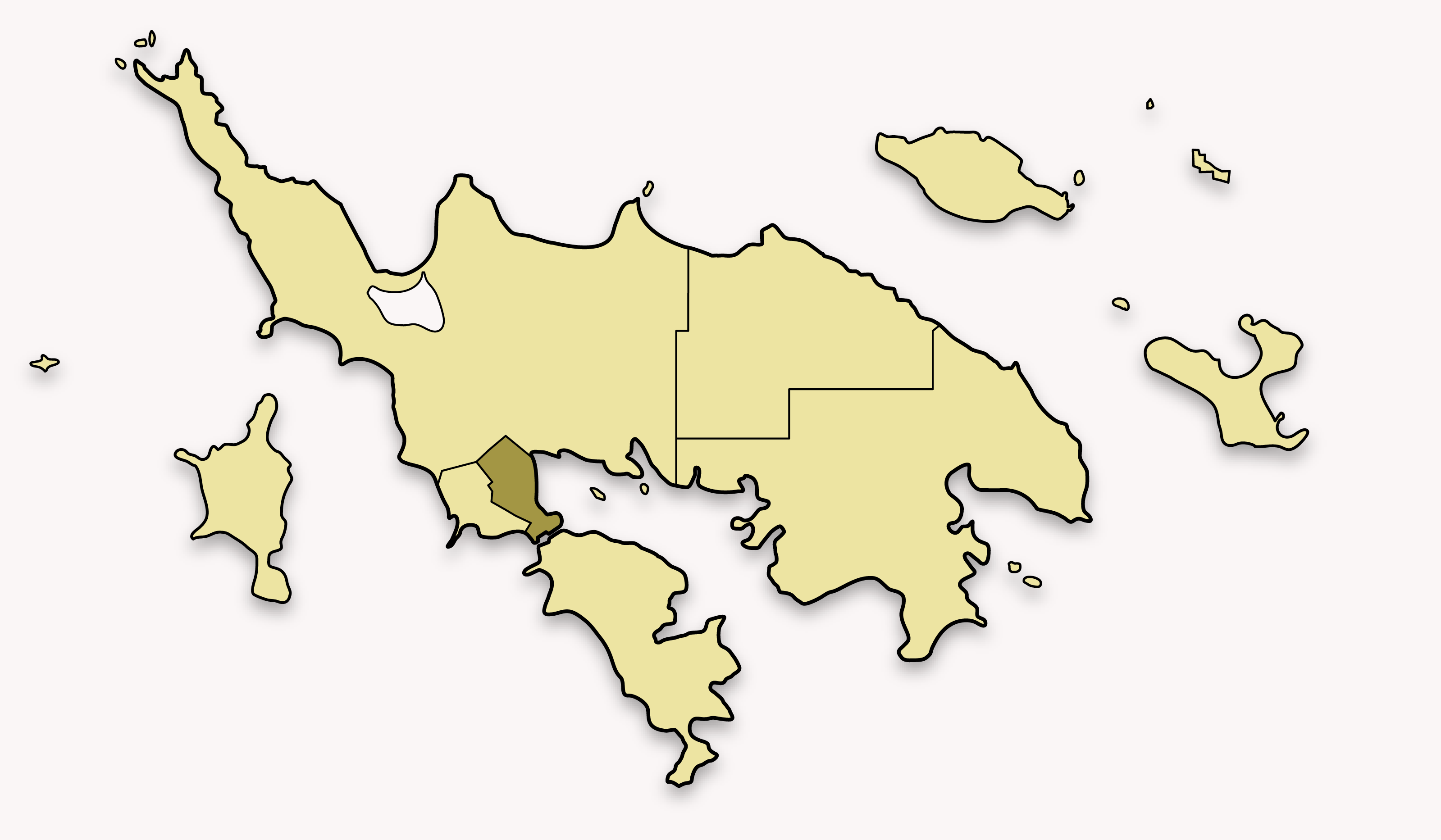 Map of Culebra (Puerto Rico) highlighting Culebra Pueblo (Dewey) ward